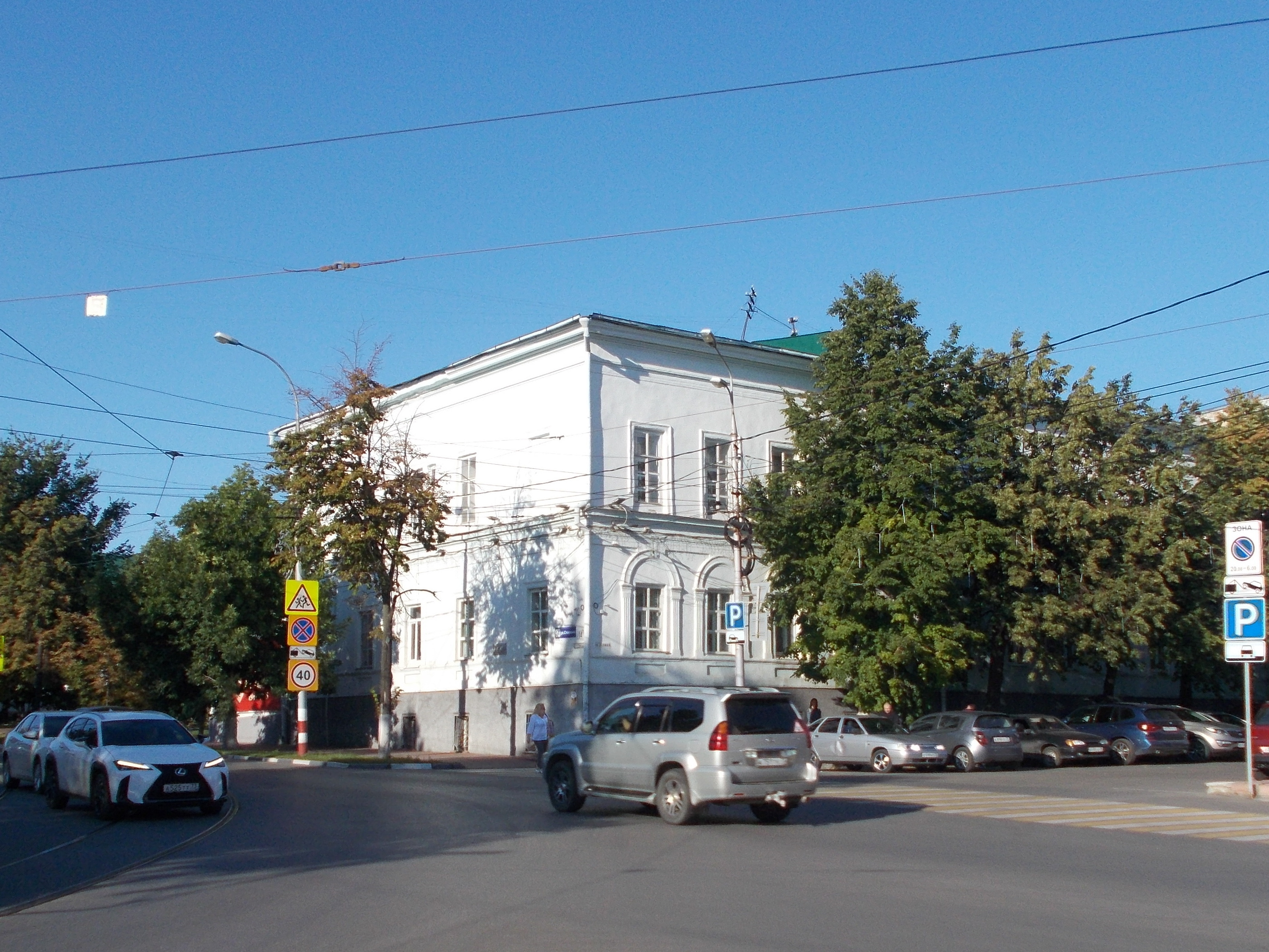 Ulyanovsk. Ulyanovsk Branch of the Institute of Radio Engineering and Electronics of RAS, laboratories. 2020